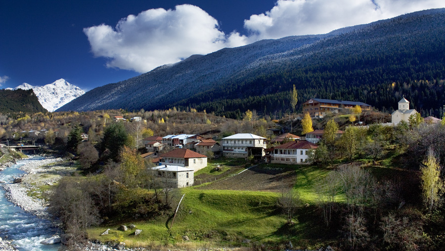 Mestia, Georgia — View of Mestia, Svaneti